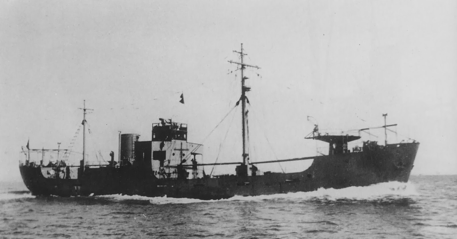 IJN supply ship NOZAKI on trial run. Her name was NANKAI at that time, and renamed to NOZAKI in 1942.